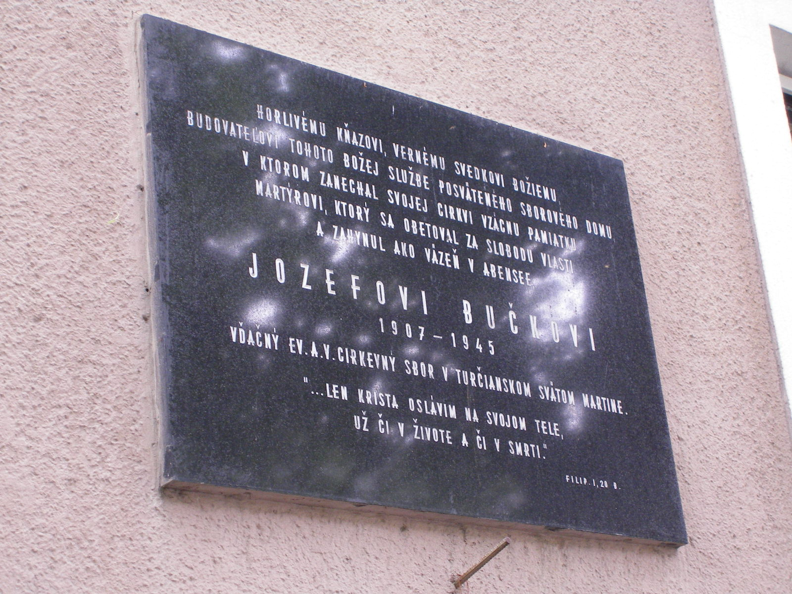 Martin - memorial plaque of Jozef Bučko